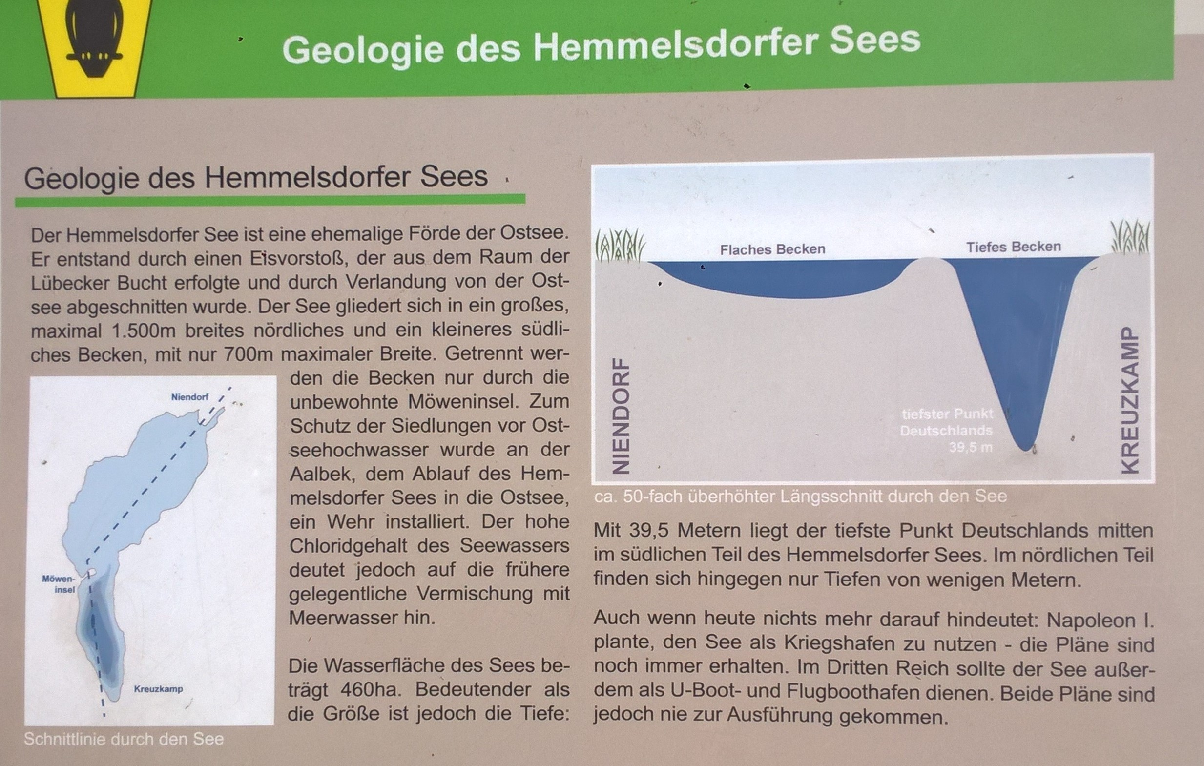 Information board: Hemmelsdorfer See - depth profile